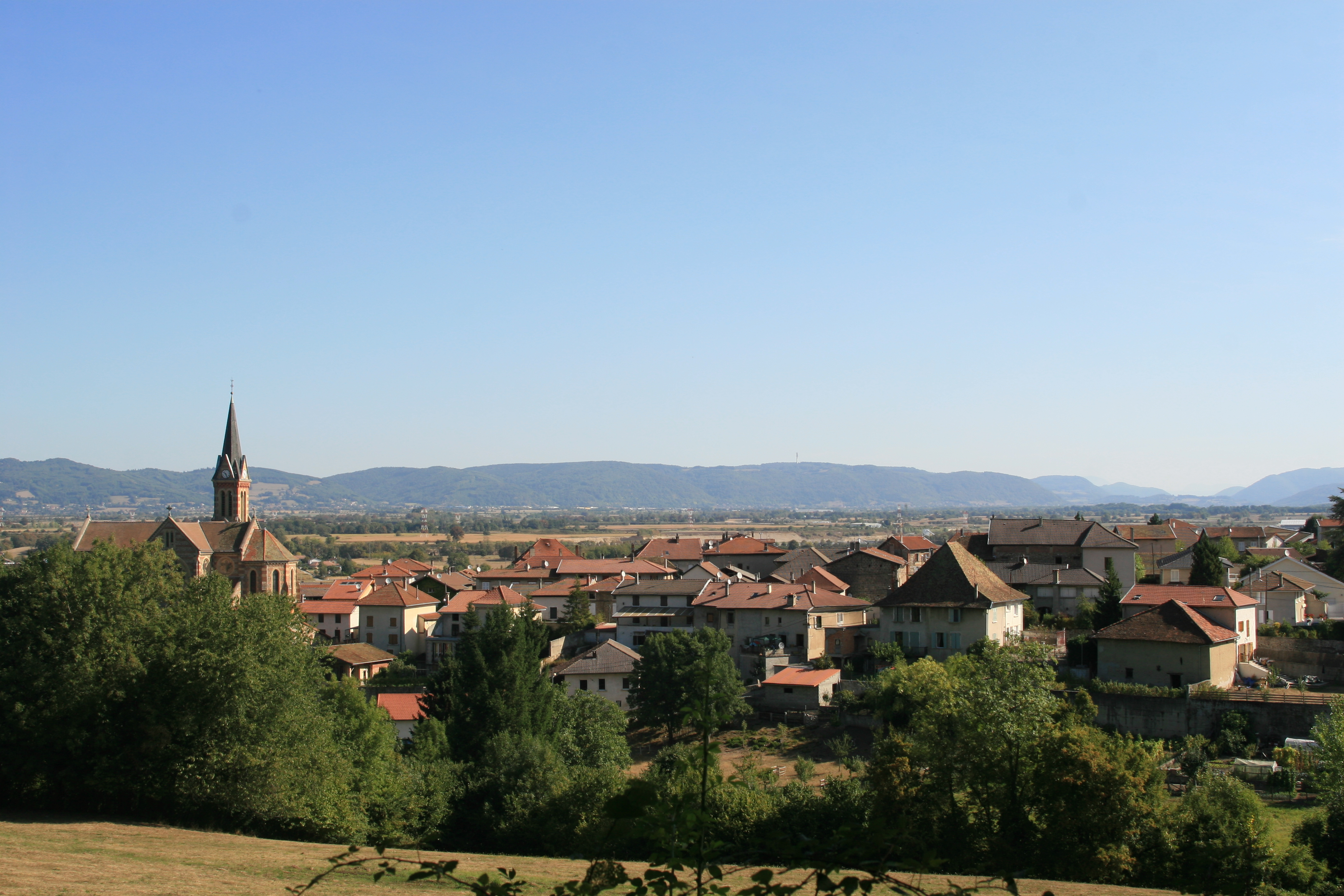 Izeaux, august 2009